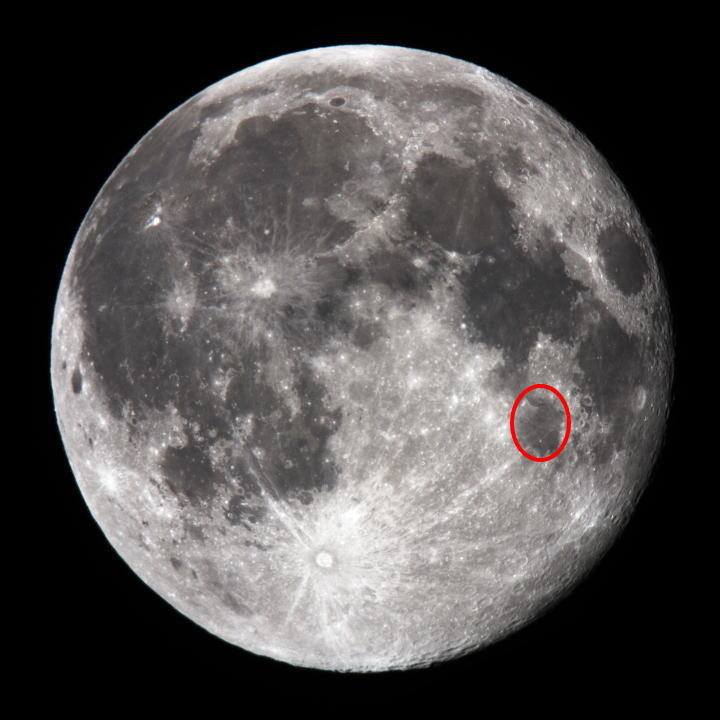 The Location of Mare Nectaris, One of the Lunar Geographical Features.